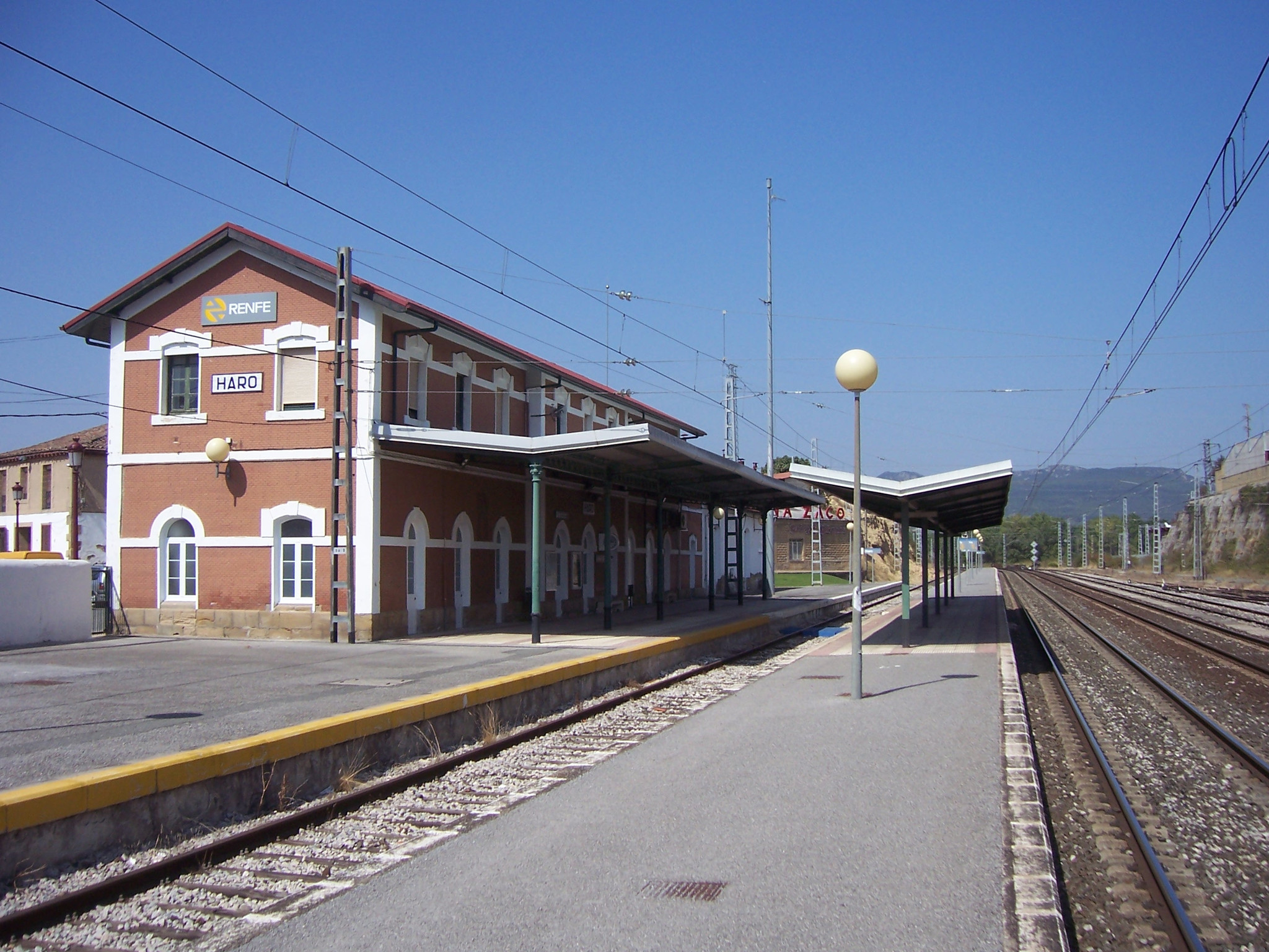 The railway station at Haro, La Rioja.